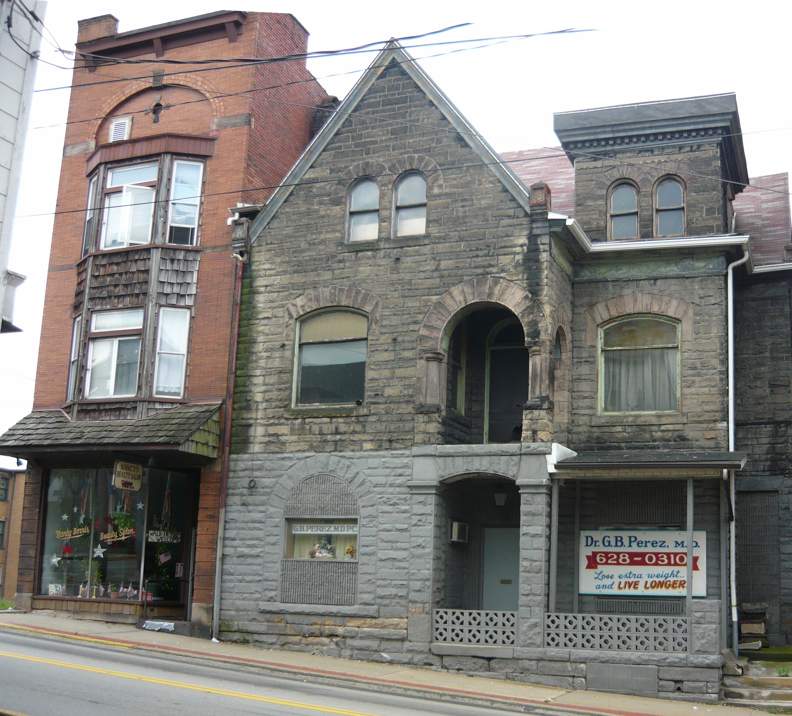 Dr. J. C. McClenathan House and Office, 134 South Pittsburgh Street, Connellsville, Pennsylvania. Built 1895 in the Richardsonian Romanesque style.